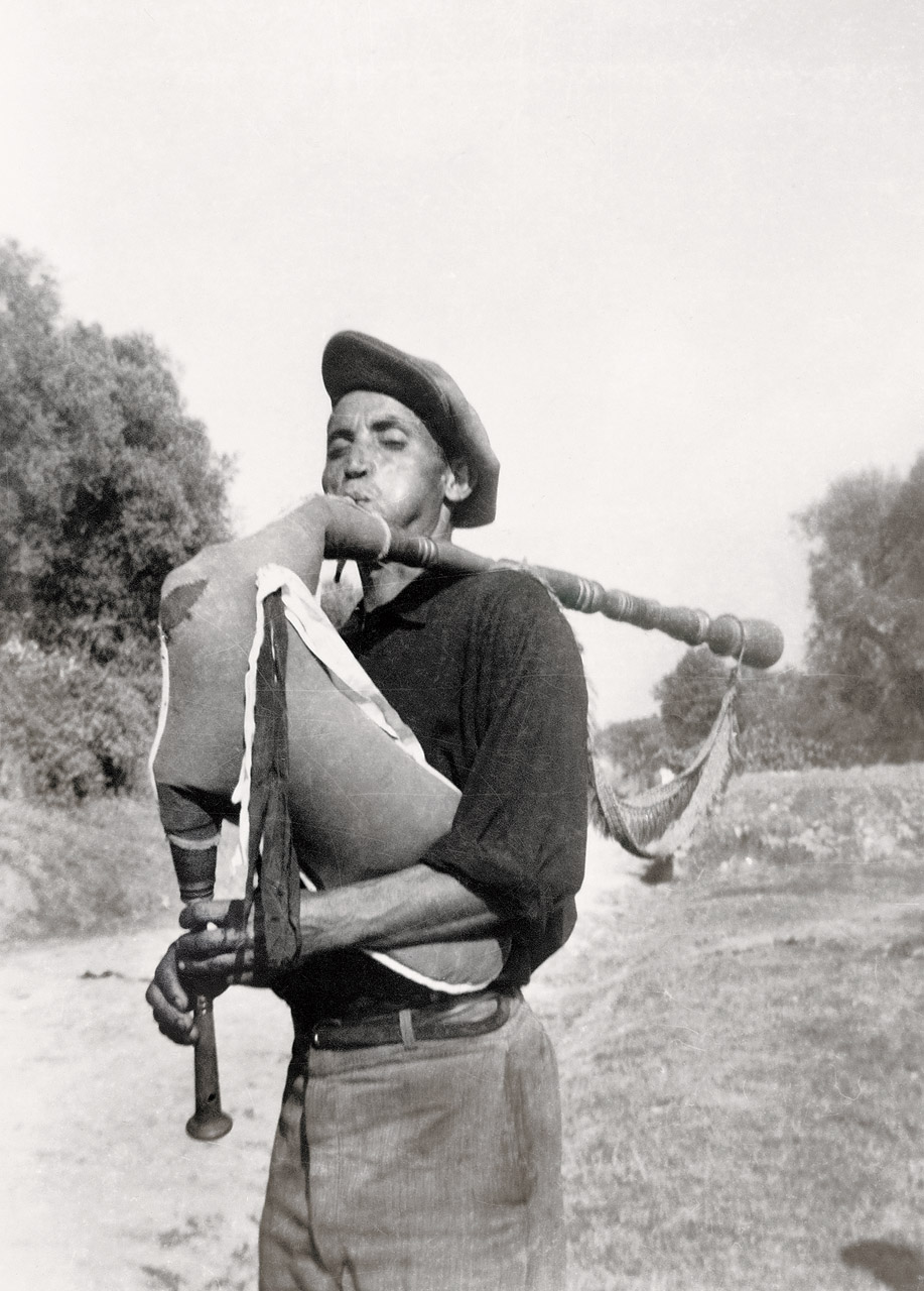 Old handmade bagpipe from Coimbra. Photo taken late 1930, Armando Leça.